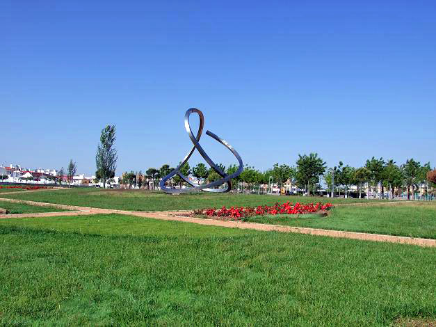 Miraflores Park, in Córdoba (Spain).